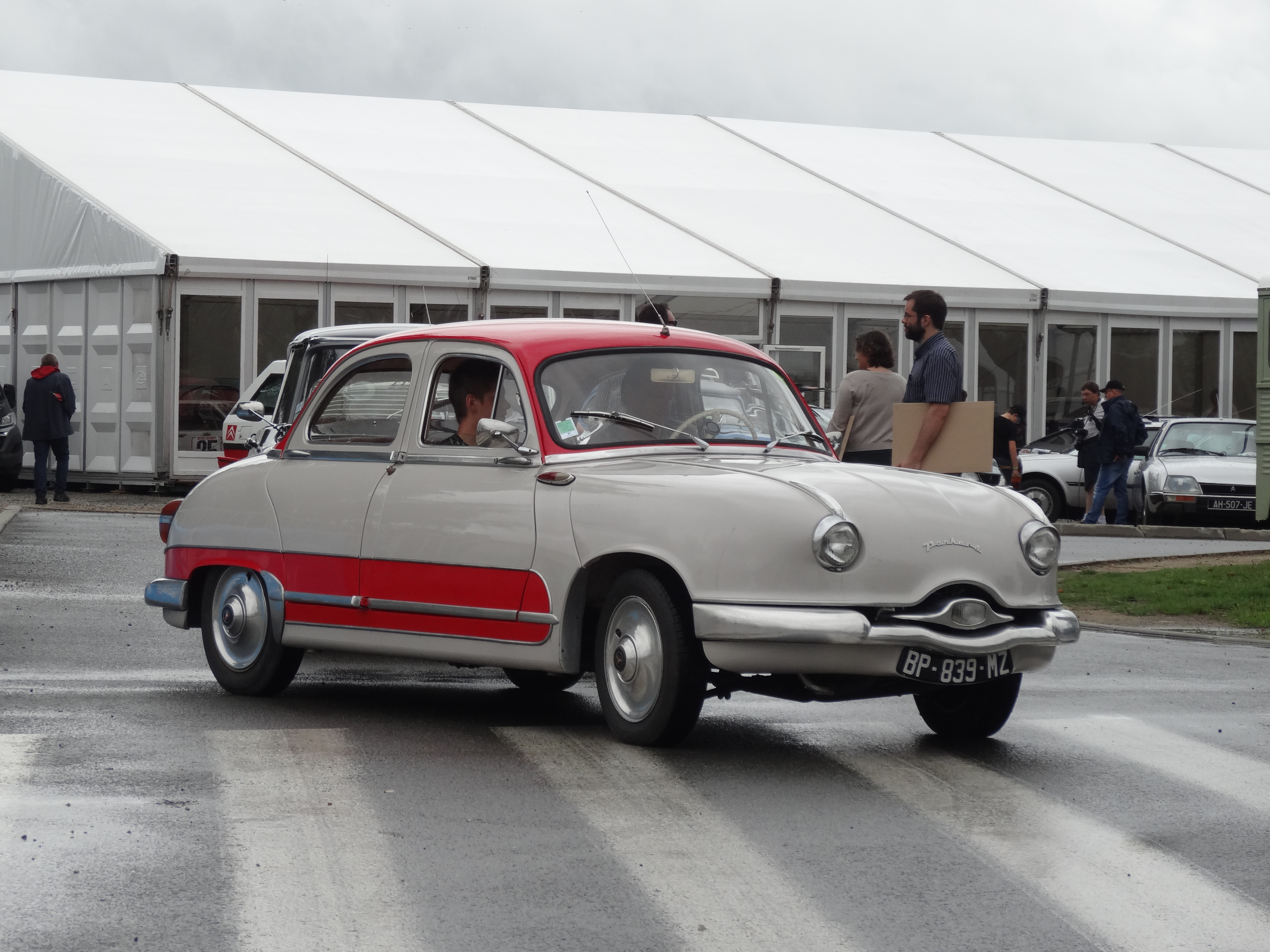 EuroCitro 2014 Le Mans 4100 Panhard Dyna Z